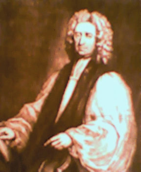 Portrait of 18th century clergyman Edmund Gibson (1669-1748)